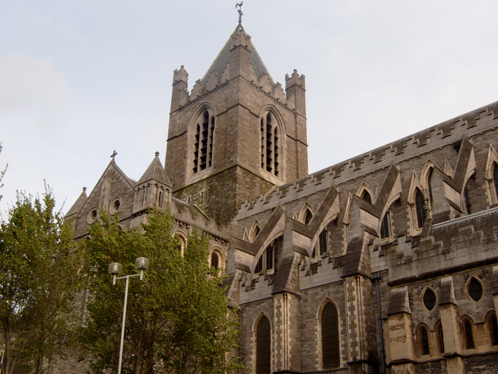 Christchurch Cathedral up close - my image no c/r